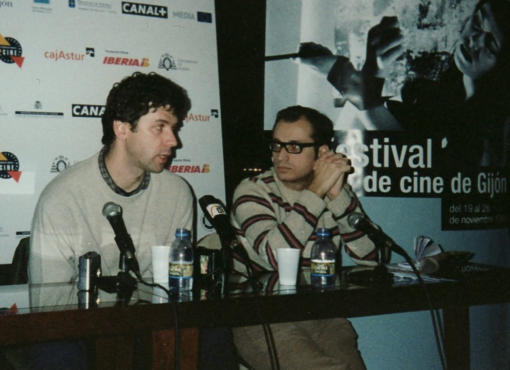 Jasmin Dizdar at a press conference